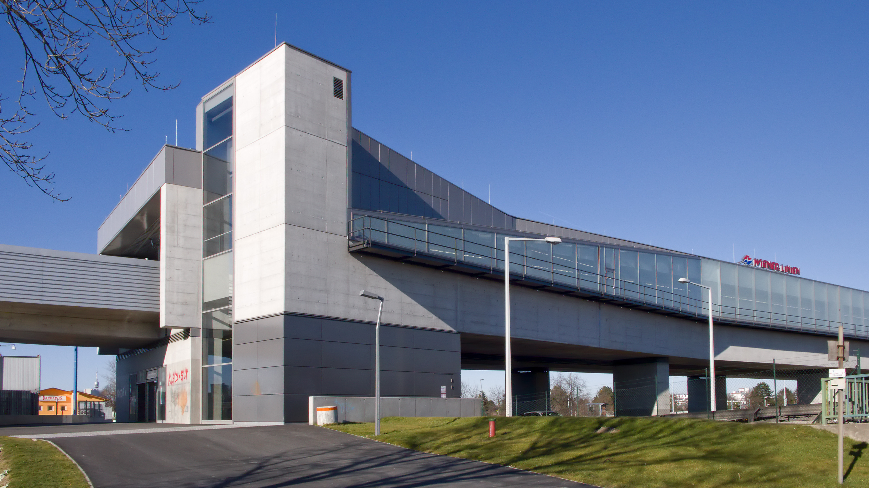 U-Bahn-Station Donaustadtbrücke of the underground line 2 in Vienna